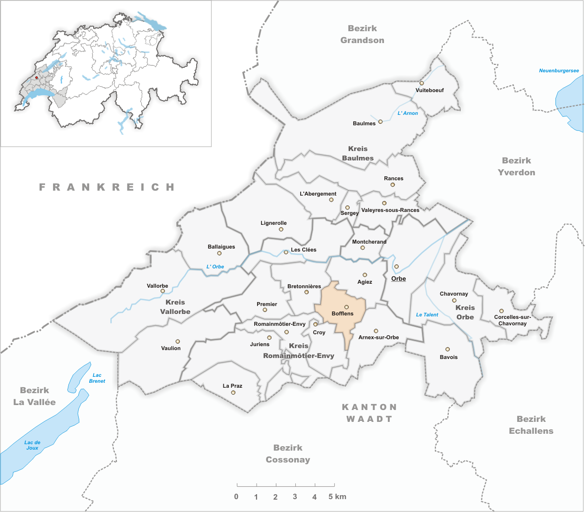 Municipality Bofflens